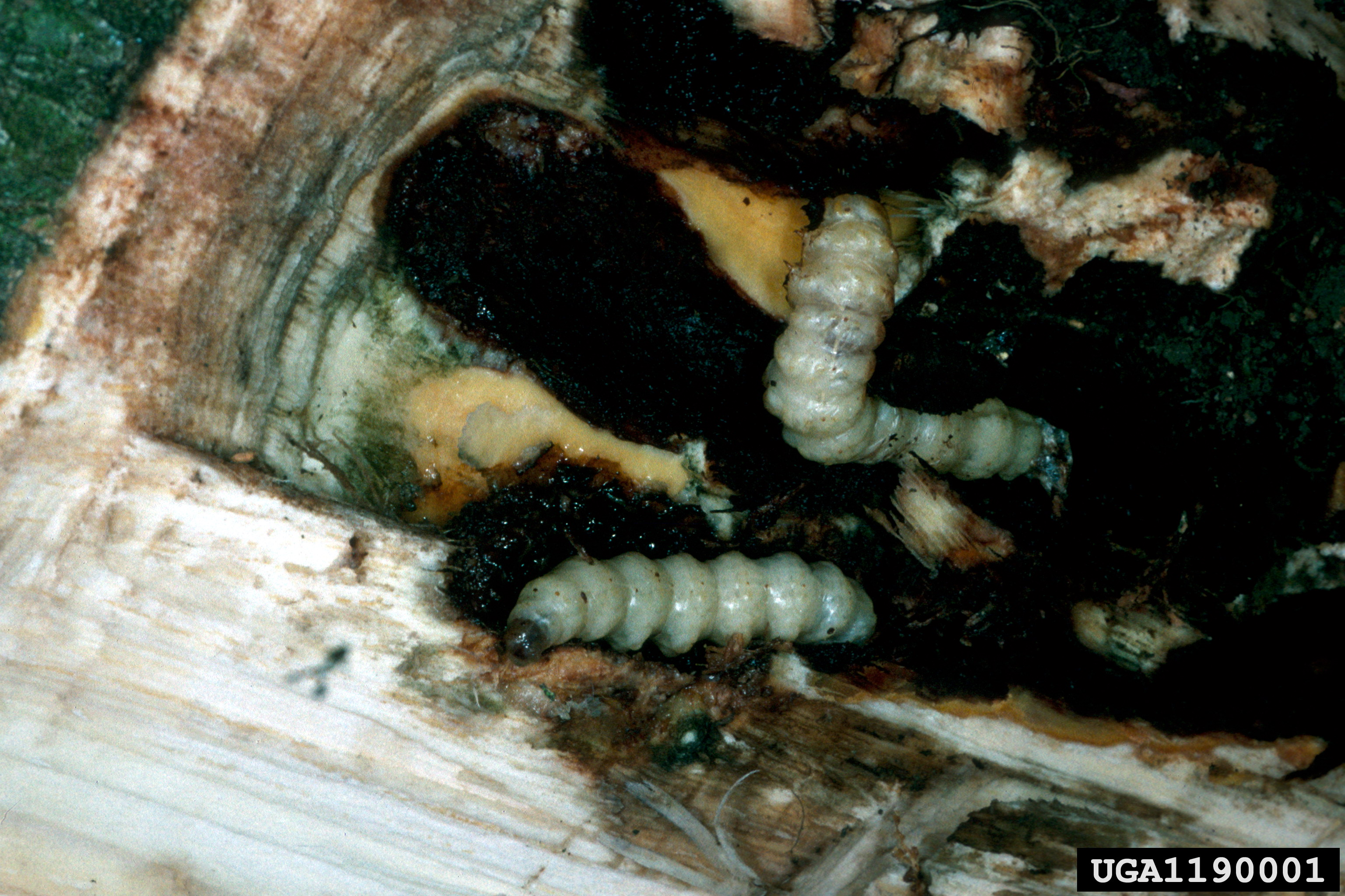 Sesia apiformis